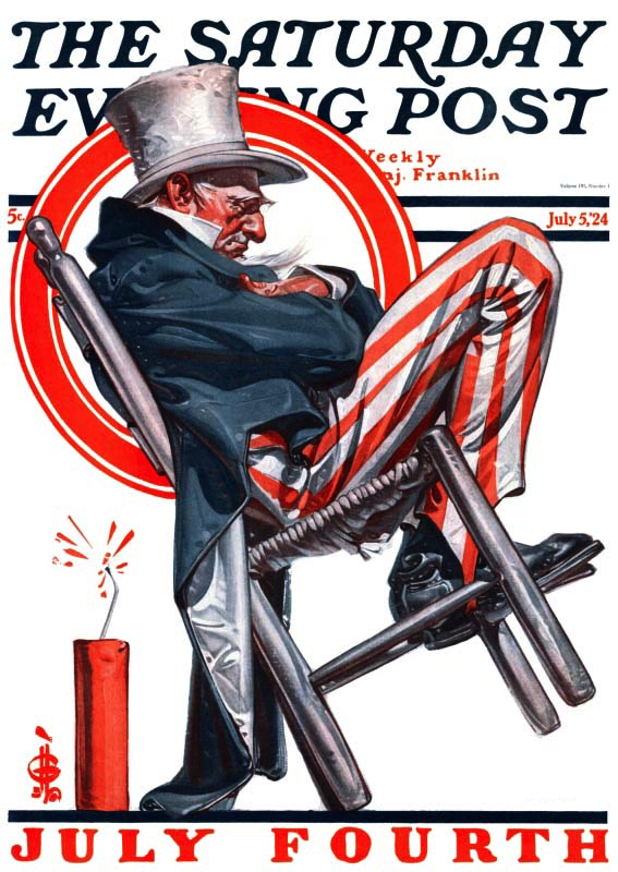 Saturday Evening Post Cover (5 Jul 1924)